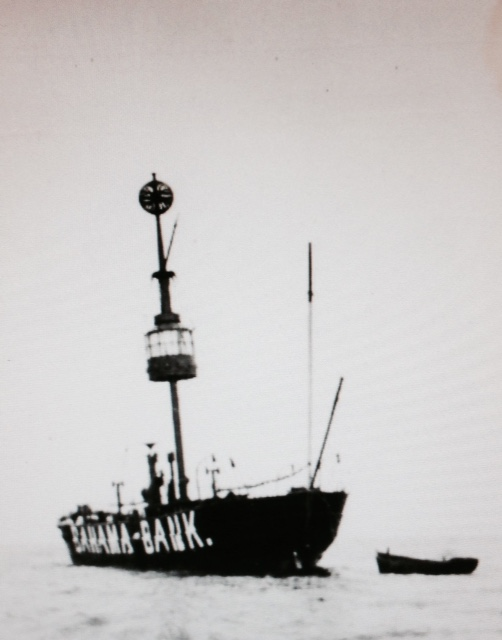 The Bahama Bank Lightvessel, Isle of Man. Removed from station (circa) 1912.